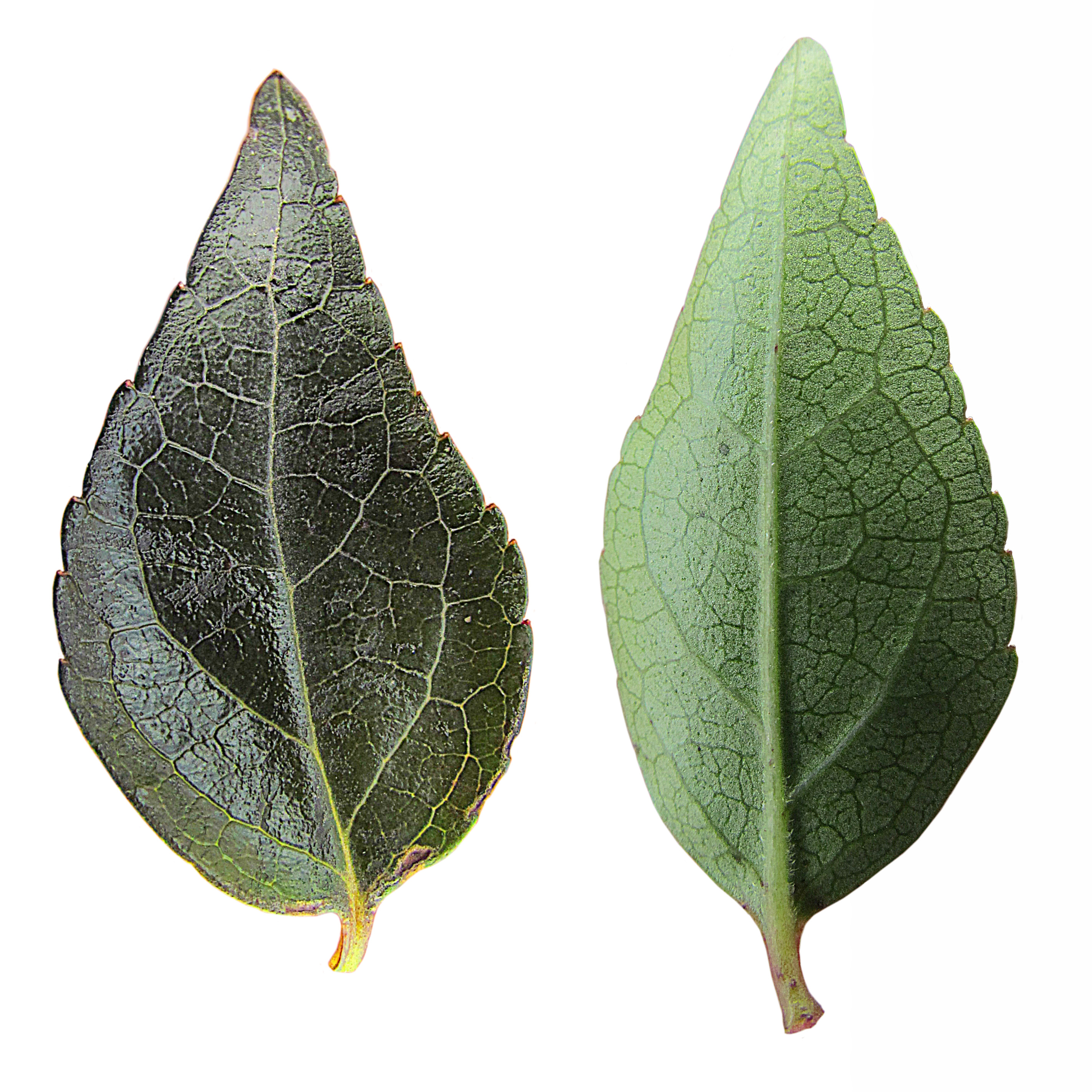 Abelia × grandiflora leaves